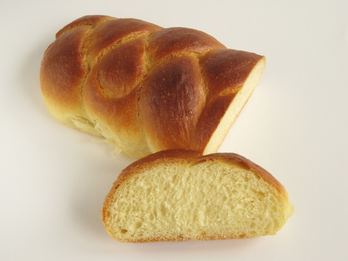 Braided bread, Challah-like (but without sesame/poppy seeds)